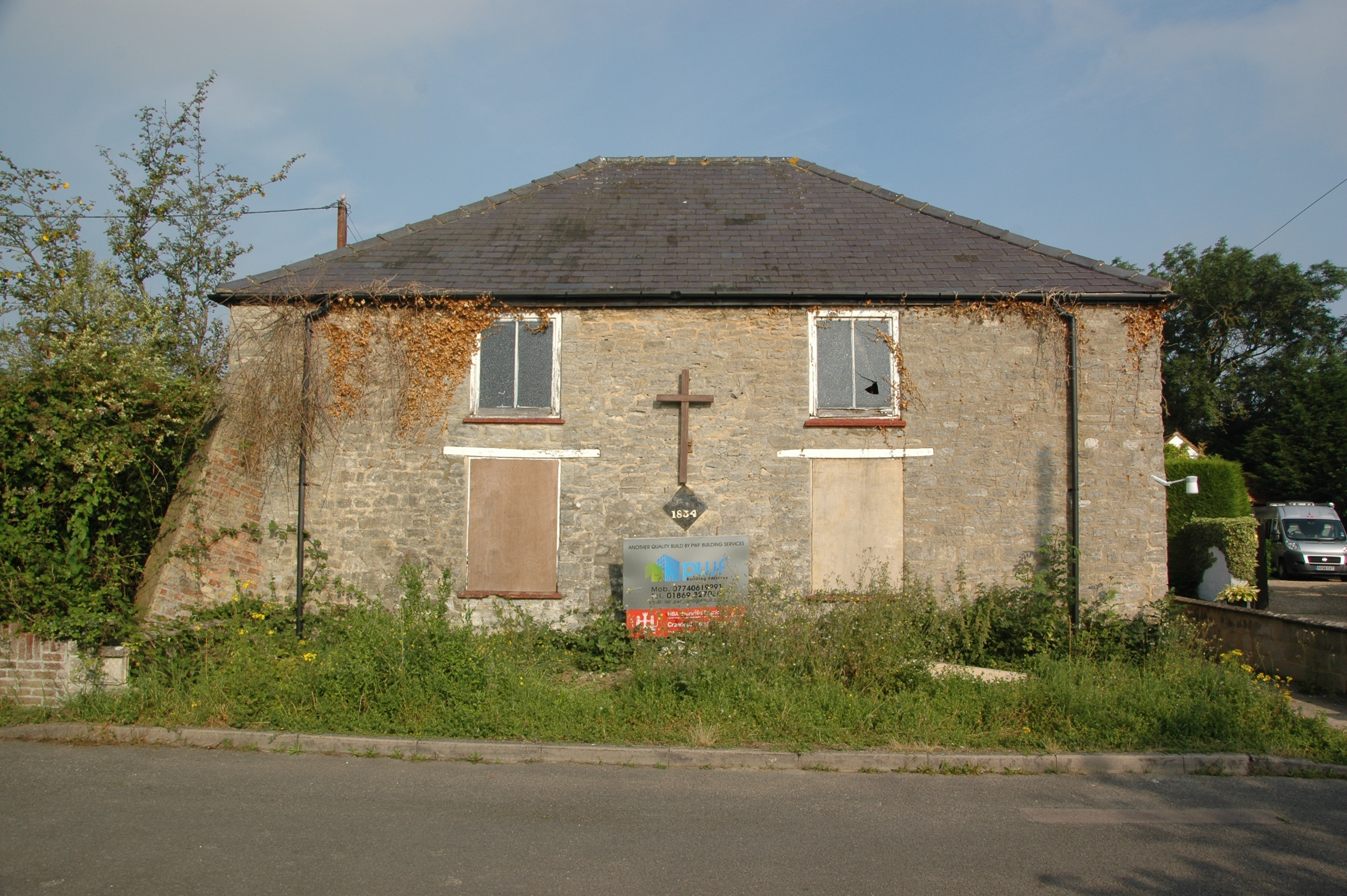 Former Methodist chapel, Green Lane, Upper Arncott, Oxfordshire, England